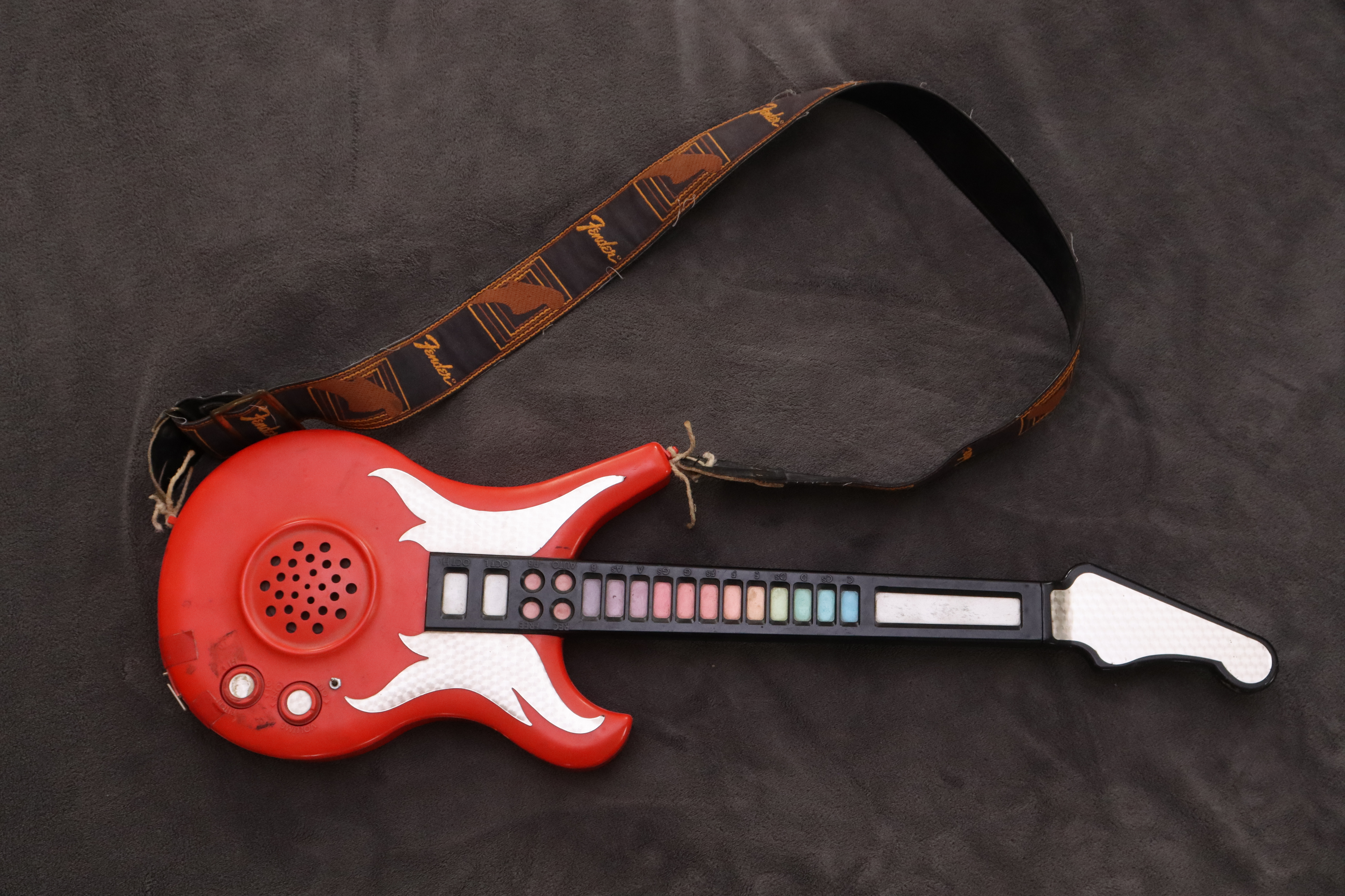 toy guitar